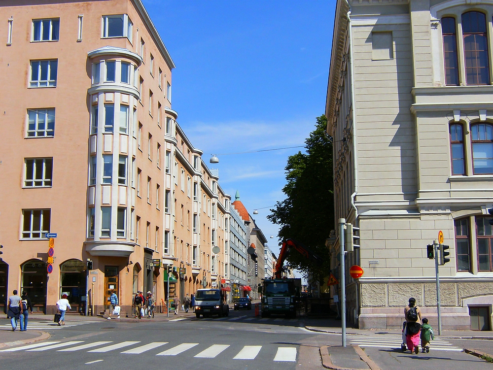 The street "Lönnrotinkatu" in Helsinki, Finland; the junction of Abrahaminkatu (horizontal) and Lönnrotinkatu, direction north-east